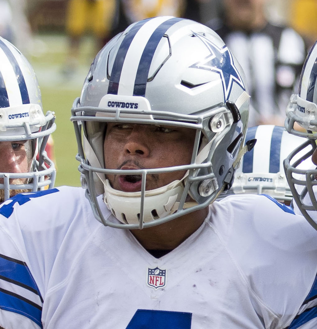 Dallas Cowboys quarterback, Dak Prescott, in a game agains the Washington Redskins on September 18, 2016.